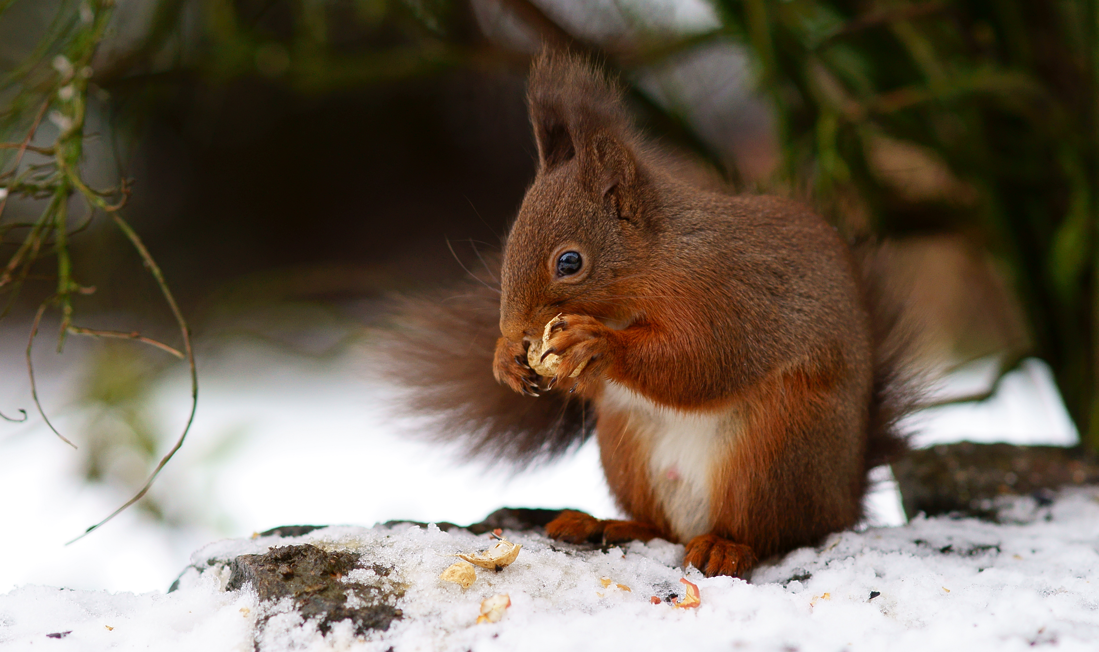 Happy in the Snow